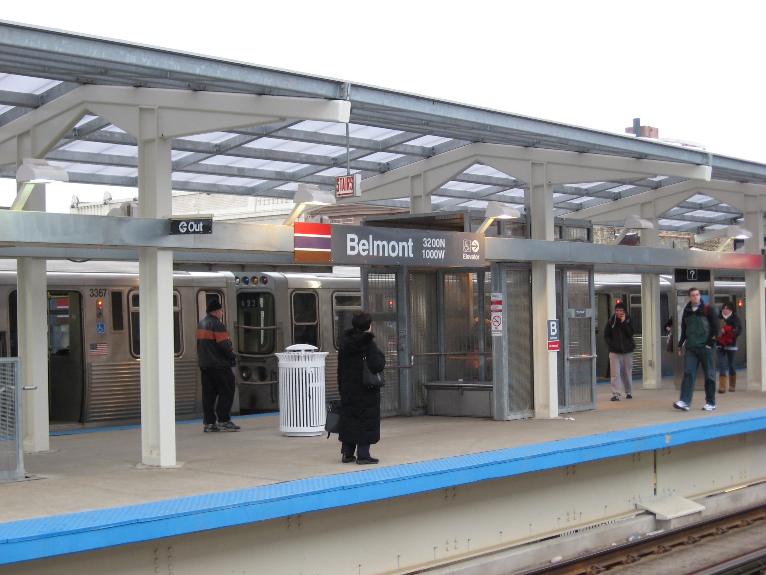 New Belmont CTA Station